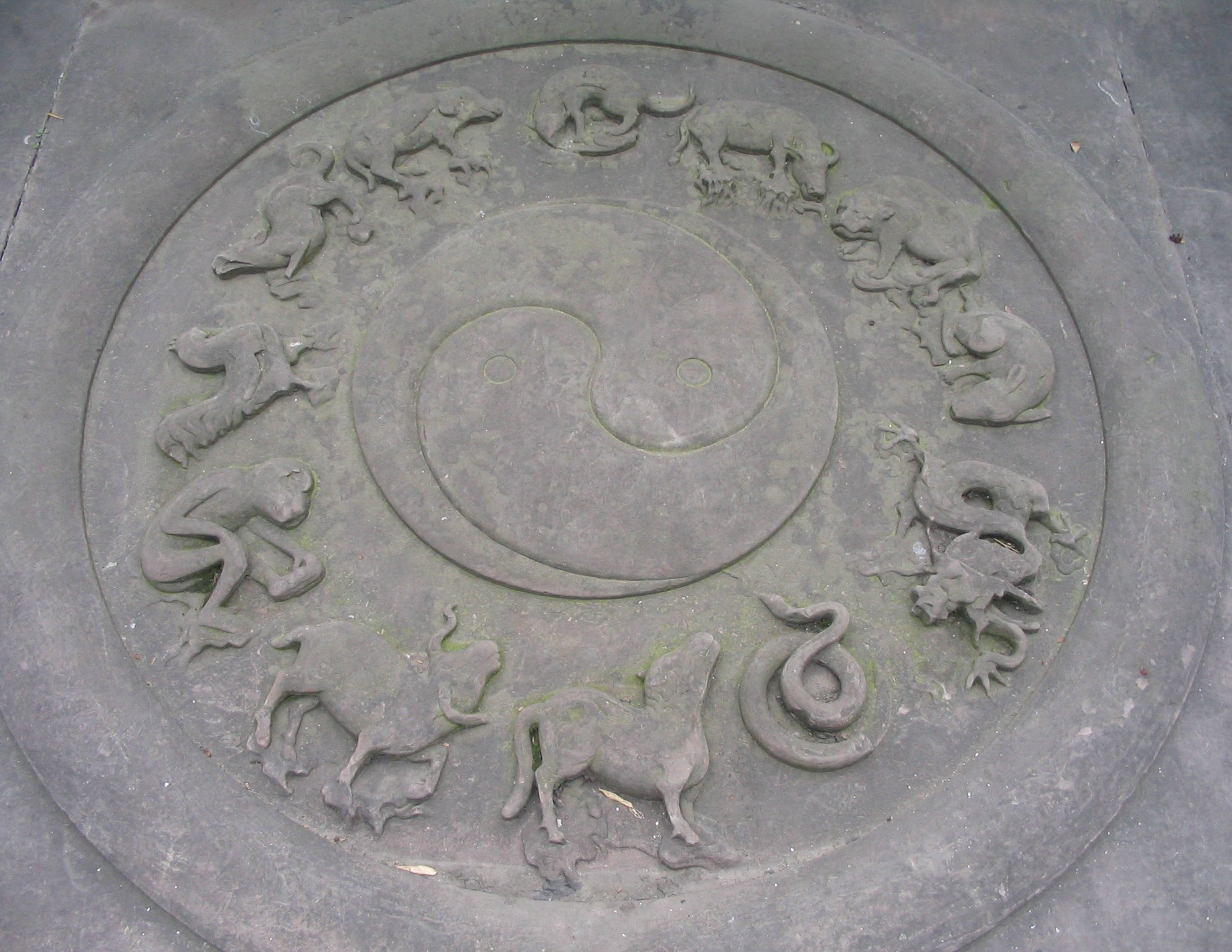 Daoist (Taoist) symbols carved in stone: yin-yang and animals of the Chinese zodiac. Qingyanggong temple, Chengdu, Sichuan, China